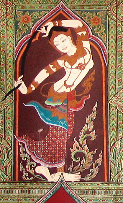 Mural painting, ubosot, Wat Tha Suthawat, Ang Thong Province, central Thailand